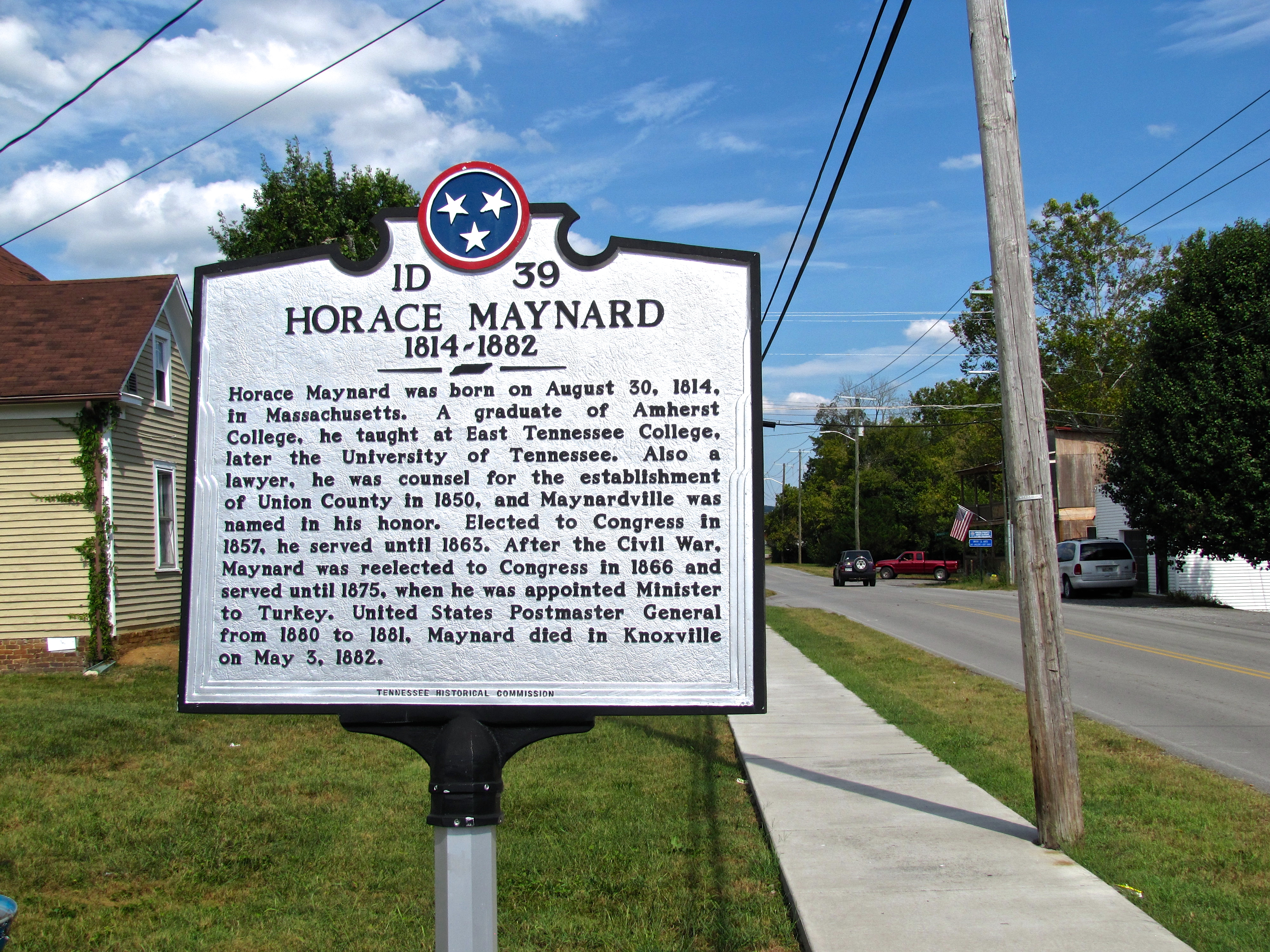 Tennessee Historical Commission marker dedicated to Horace Maynard (1814–1882) in Maynardville, Tennessee, United States.